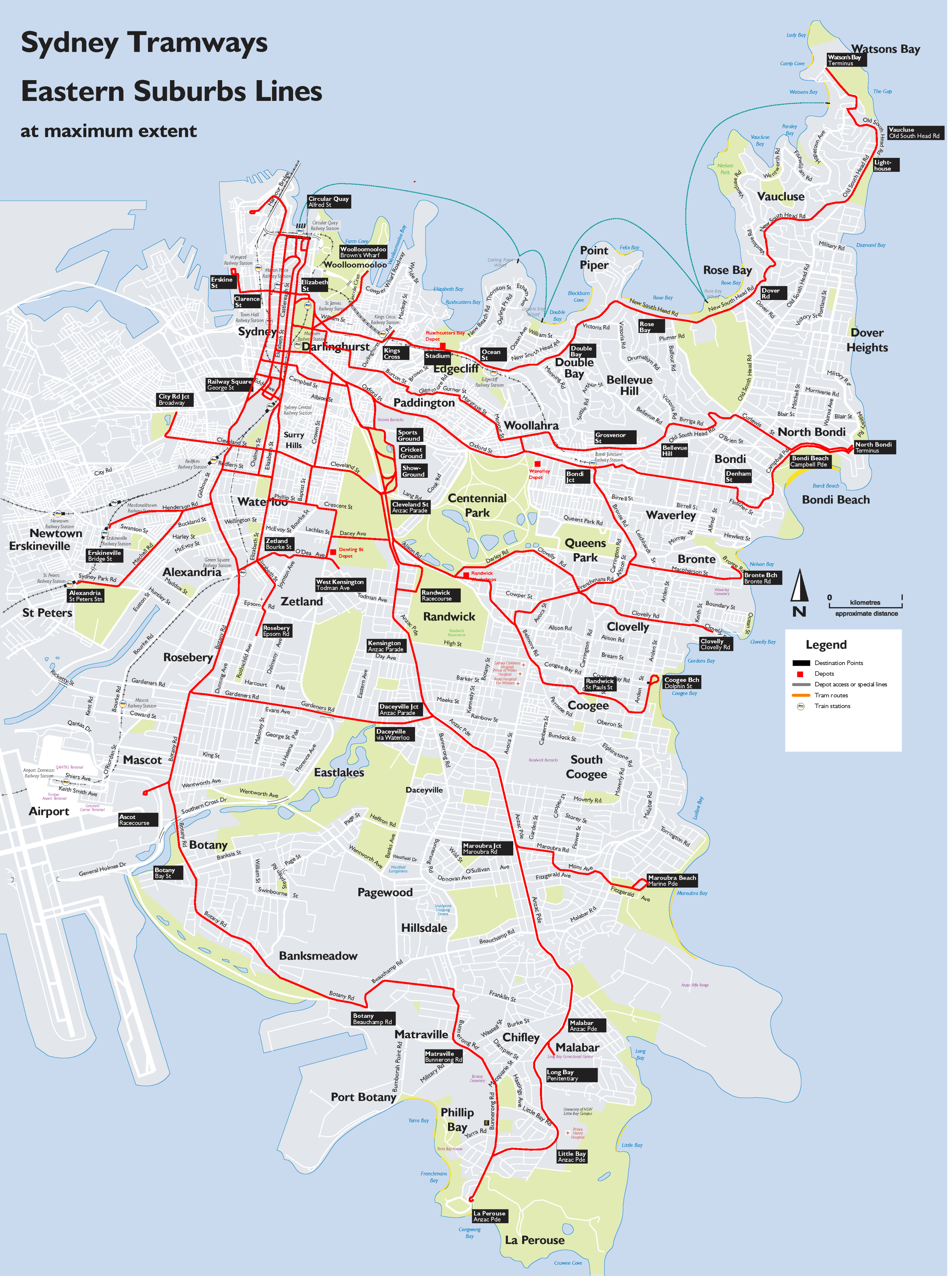 Map of the former tram network of the eastern suburbs of Sydney, Australia at maximum extent c. 1933.